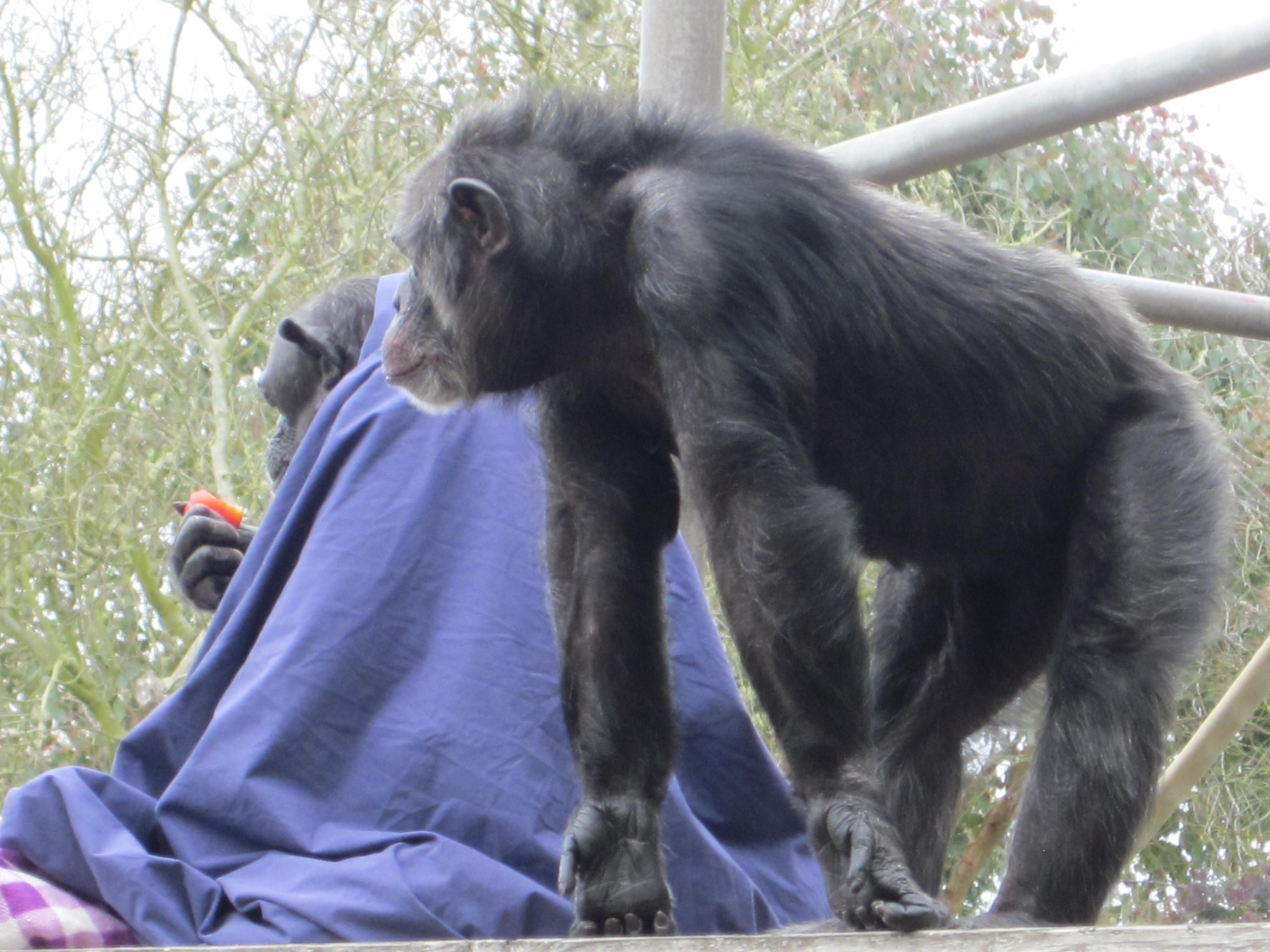 Common Chimpanzees in the San Francisco Zoo.